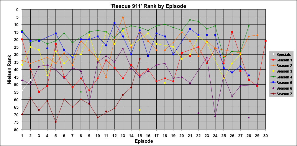 Graph showing weekly rank (based on the episode's Nielsen rating) for the television program 'Rescue 911'. Points not connected to lines denote episodes that did not air on a Tuesday (or Thursday, in February-May of Season 7). Only original airings of episodes are shown in this graph; reruns are not included. I created this chart in Microsoft Excel using data I gathered from the following periodicals: The Austin American-Statesman, The Orlando Sentinel, Press-Telegram (Long Beach, CA), St. Petersburg Times, The Orange County Register (Santa Ana, CA), Sun-Sentinel (Ft. Lauderdale, FL)